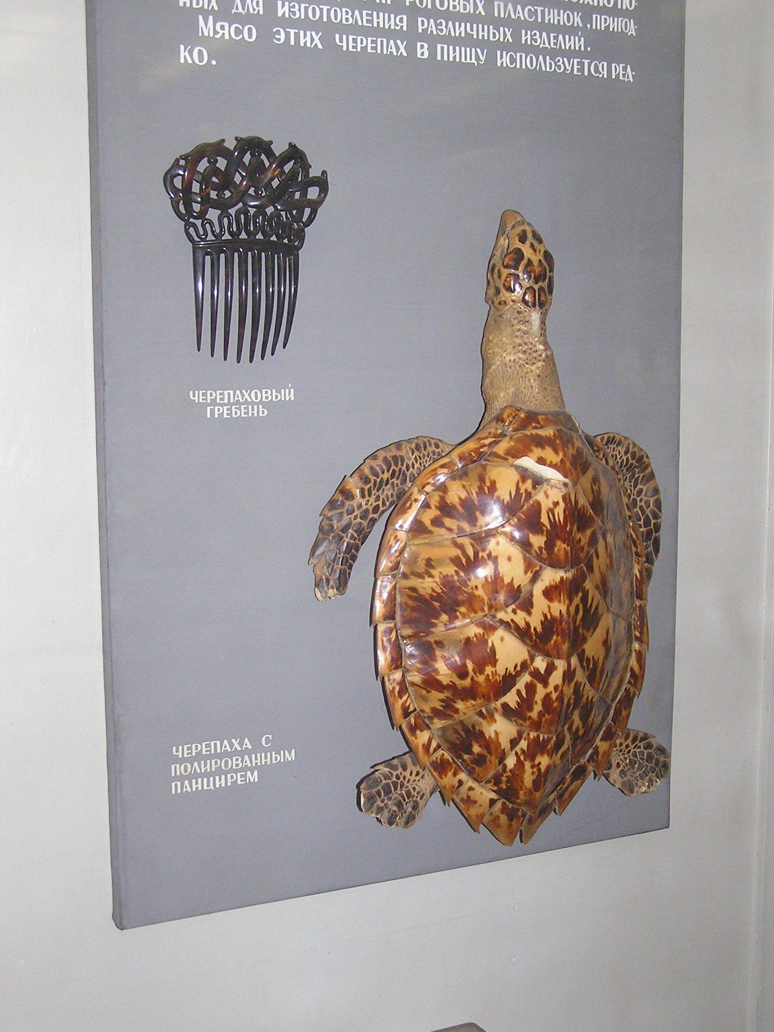 Eretmochelys imbricata in the Museum of Zoology (Saint Petersburg)